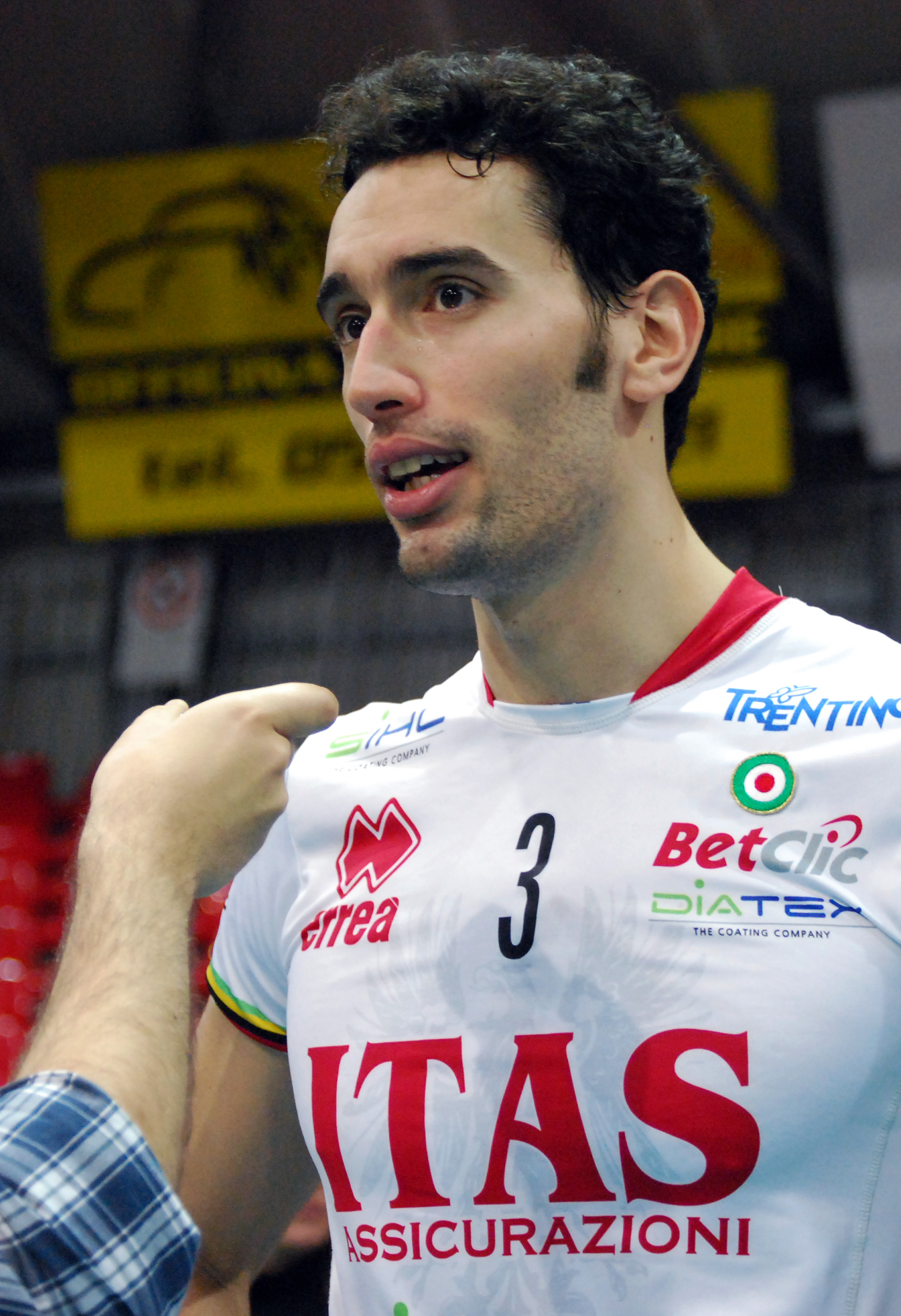 I took this photo during a volleyball match in Piacenza